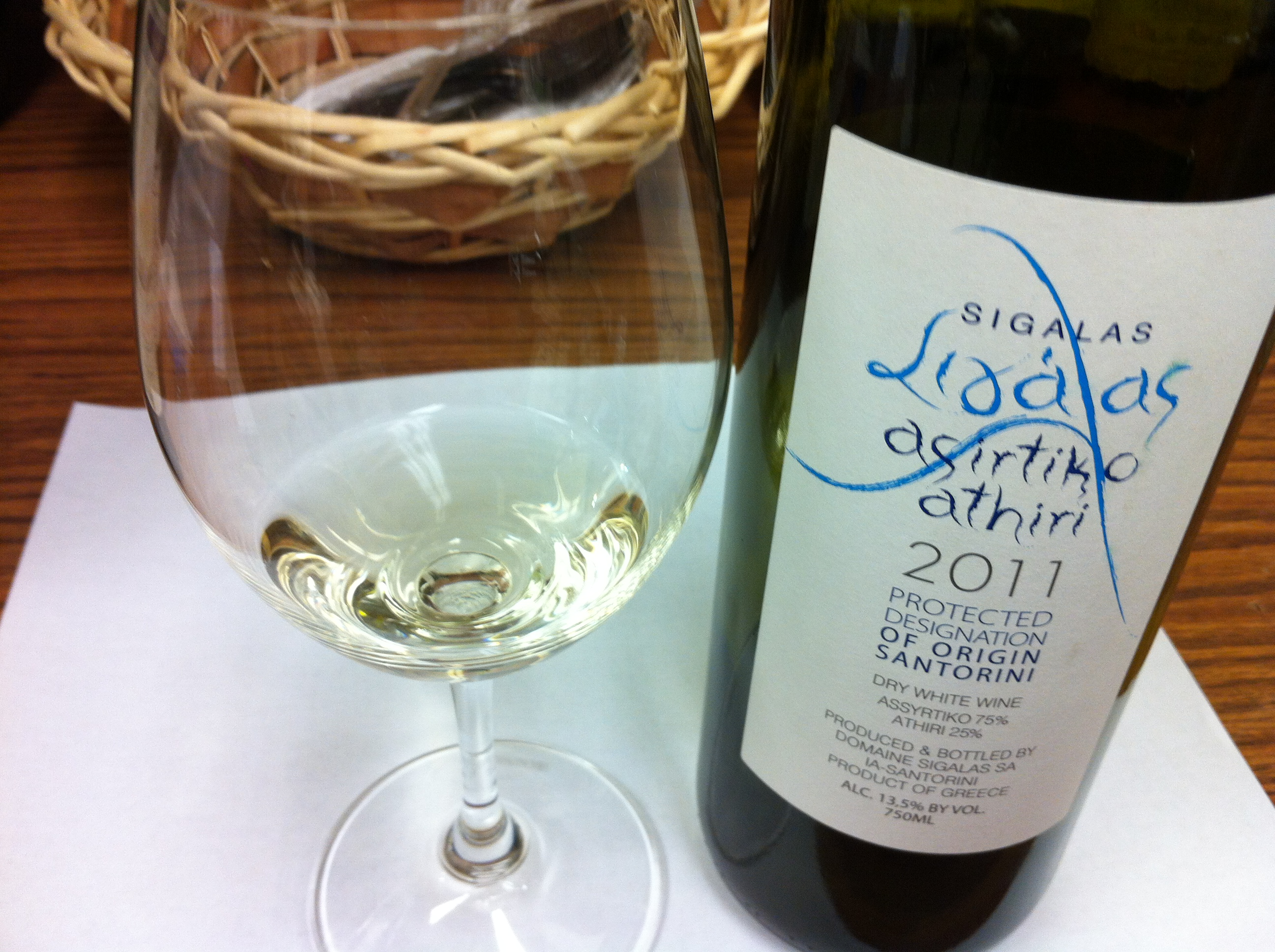 Greek wine from the island of Santorini made from Assyrtiko 75% and Athiri 25%